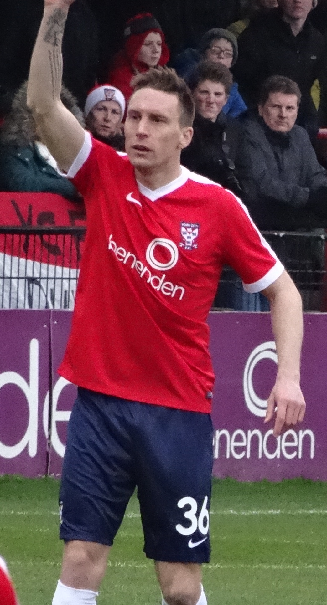 Danny Parslow playing for York City against Maidstone United at Bootham Crescent, York on 11 February 2017